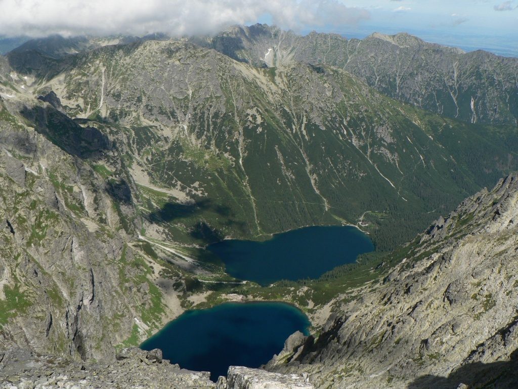 Morskie Oko with Czarny Staw pod Rysami from top of Rysy Mt.